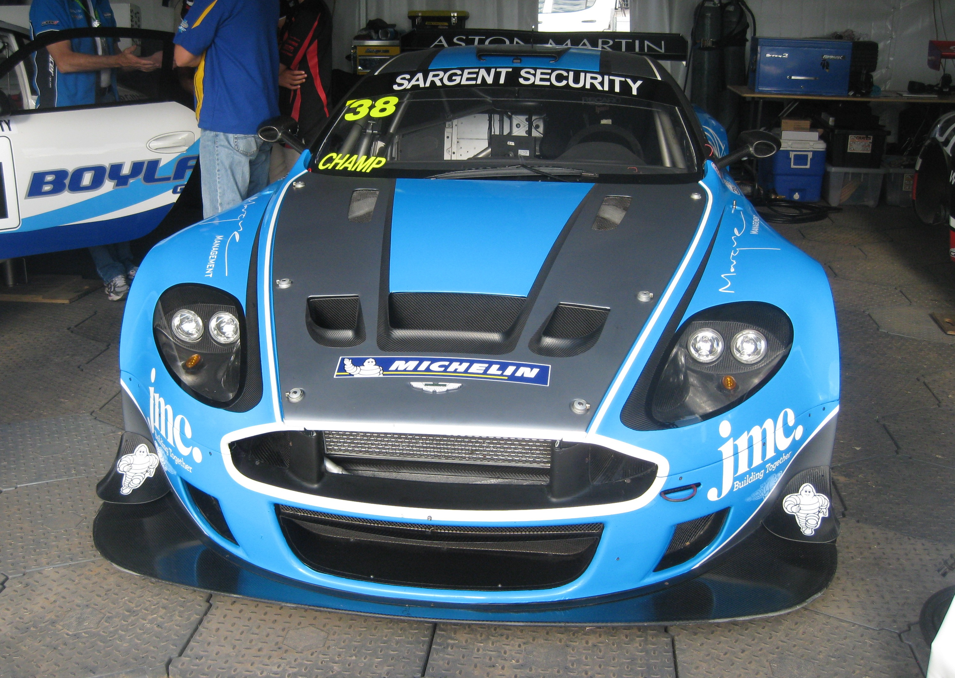 The Aston Martin DBRS9 of Ben Eggleston at the opening round of the 2012 Australian GT Championship